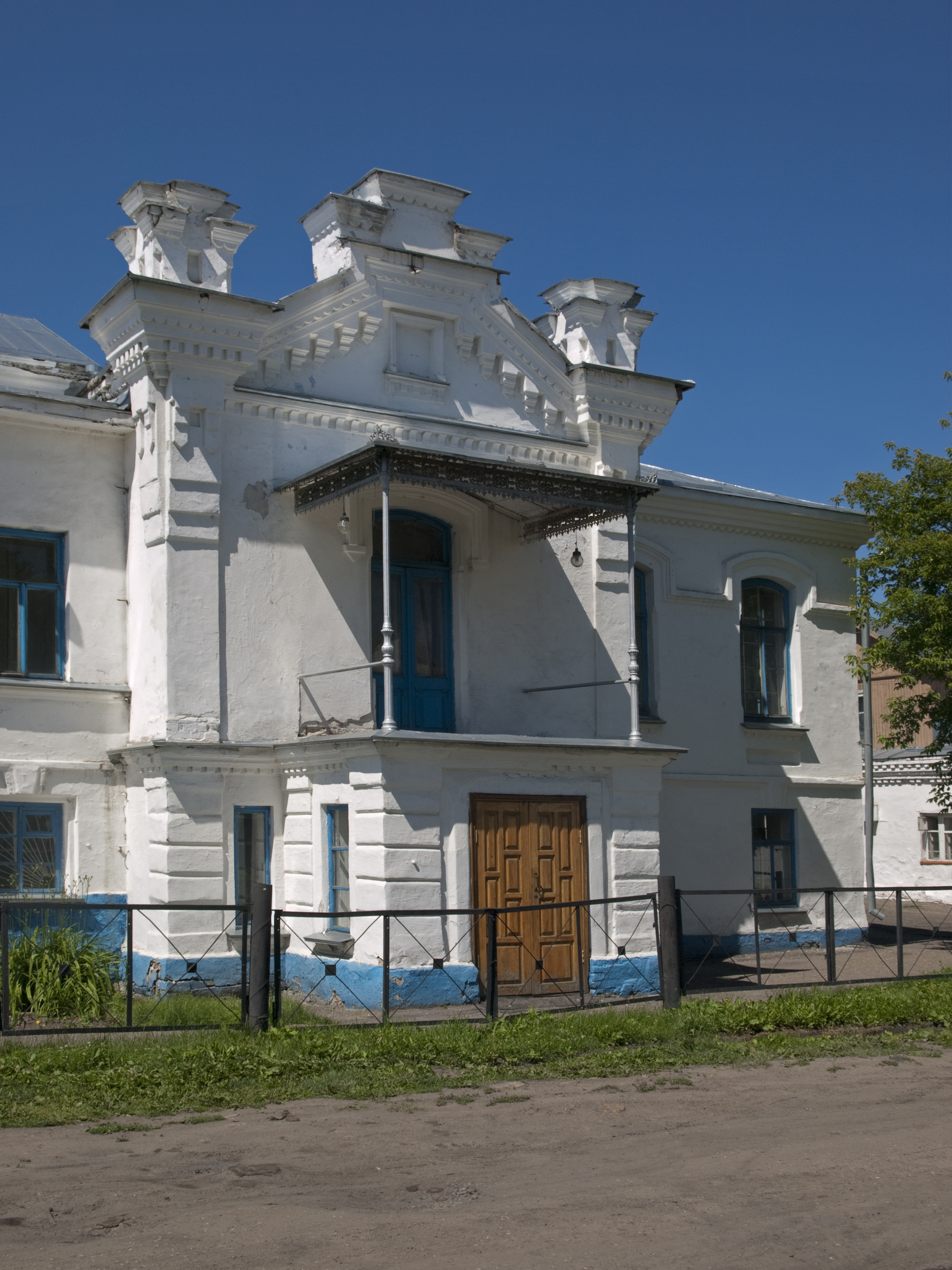 Pyatkov (Nerpin) House, Sovetskaya Street 30, Tara